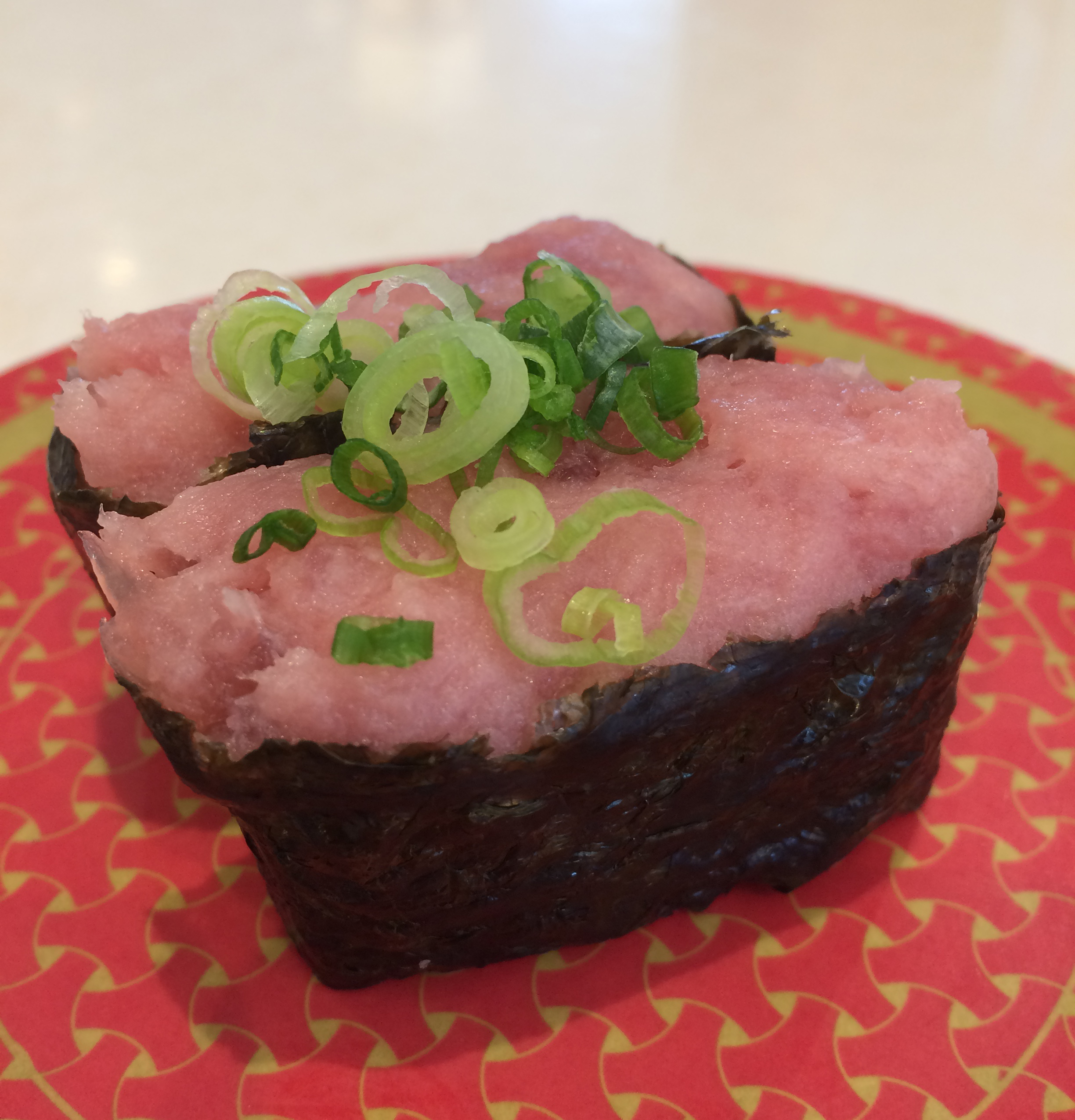 Sample of conveyor belt sushi in Japan